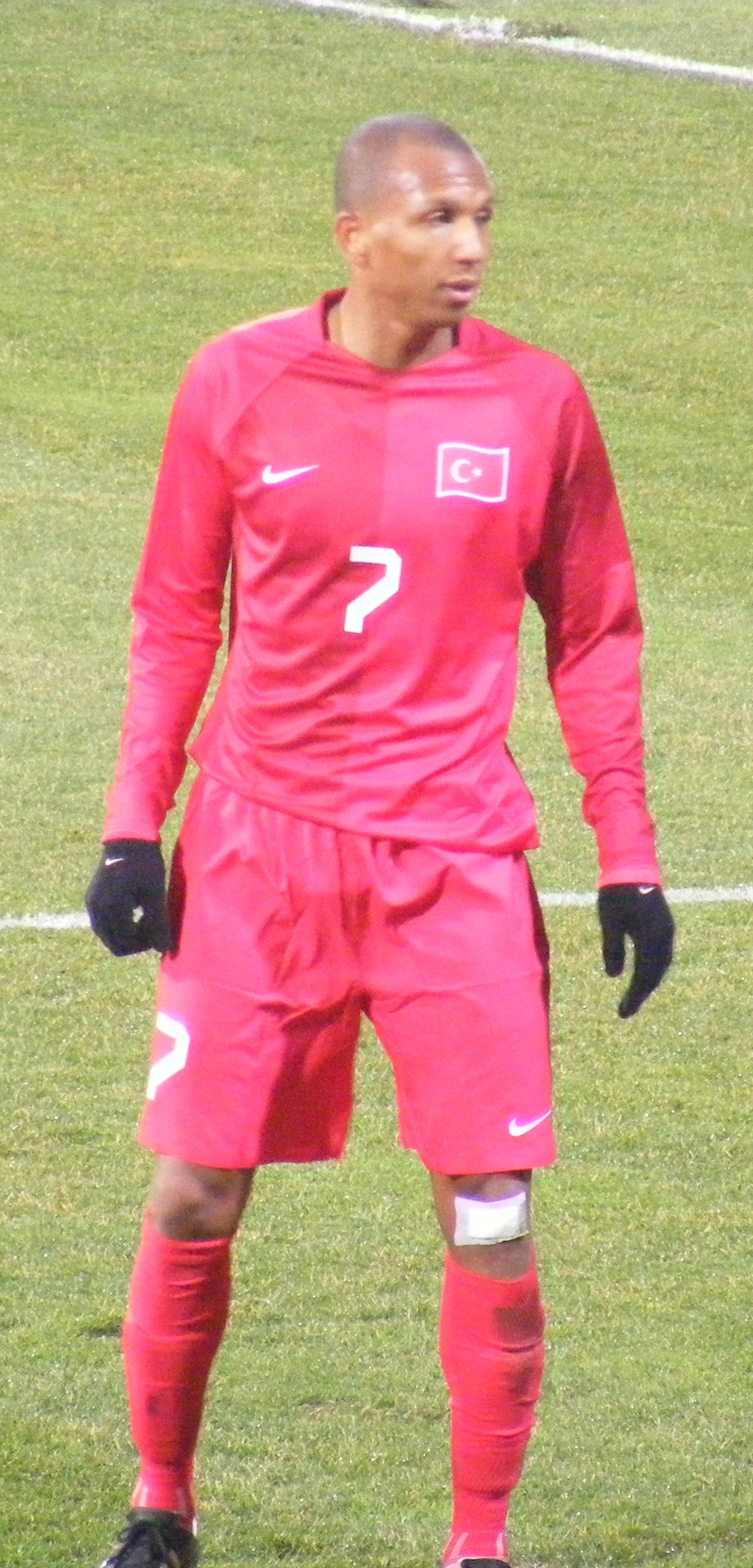 Marco (Mehmet) Aurelio playing against Sweden